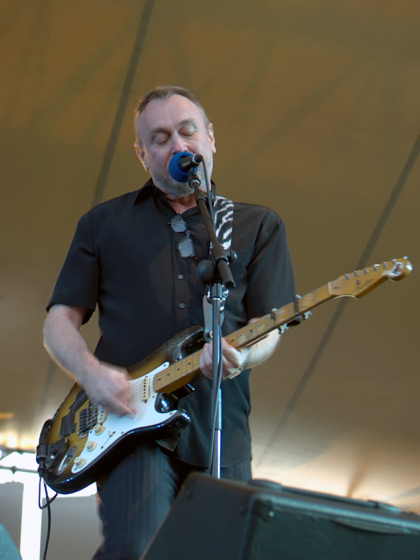 Ed Kuepper The 1st Adelaide International Guitar Festival November 2007